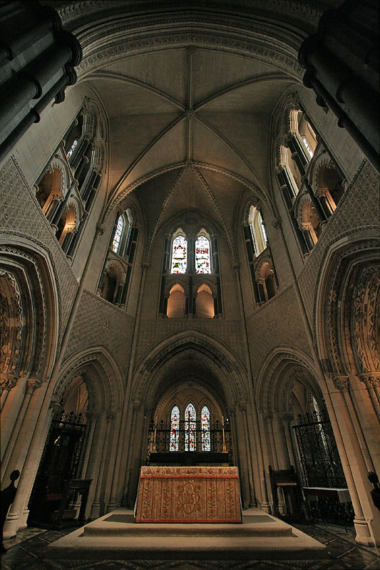 Interior of Christ Church Cathedral in Dublin, Ireland.